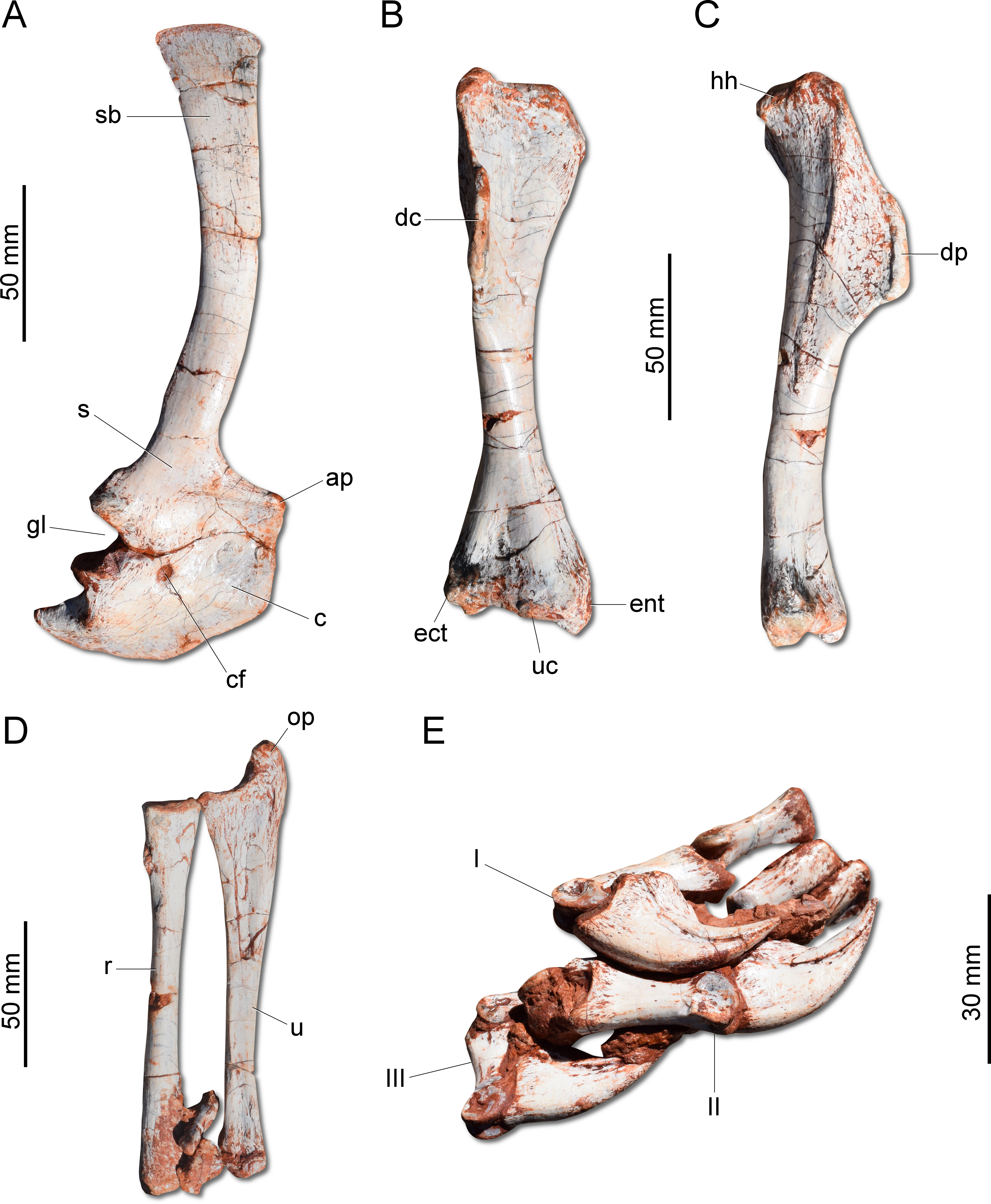 Figure 6: Photographs of the right shoulder girdle and forelimb of CAPPA/UFSM 0009. (A) Scapula and coidacoid in lateral view. (B) Humerus in cranial view. (C) Humerus in lateral view. (D) Radio and ulna in medial view. (E) Manus in medial view. ap, acromion process; c, coracoid; cf, coracoid foramen; dc, deltopectoral crest; ect, ectepicondyle; ent, entepicondyle; gl, glenoid; hh, humeral head; I, II, III, digits I–III; op, olecranon process; r, radius; s, scapula; sb, scapular blade; u, ulna; uc, ulnar condyle.